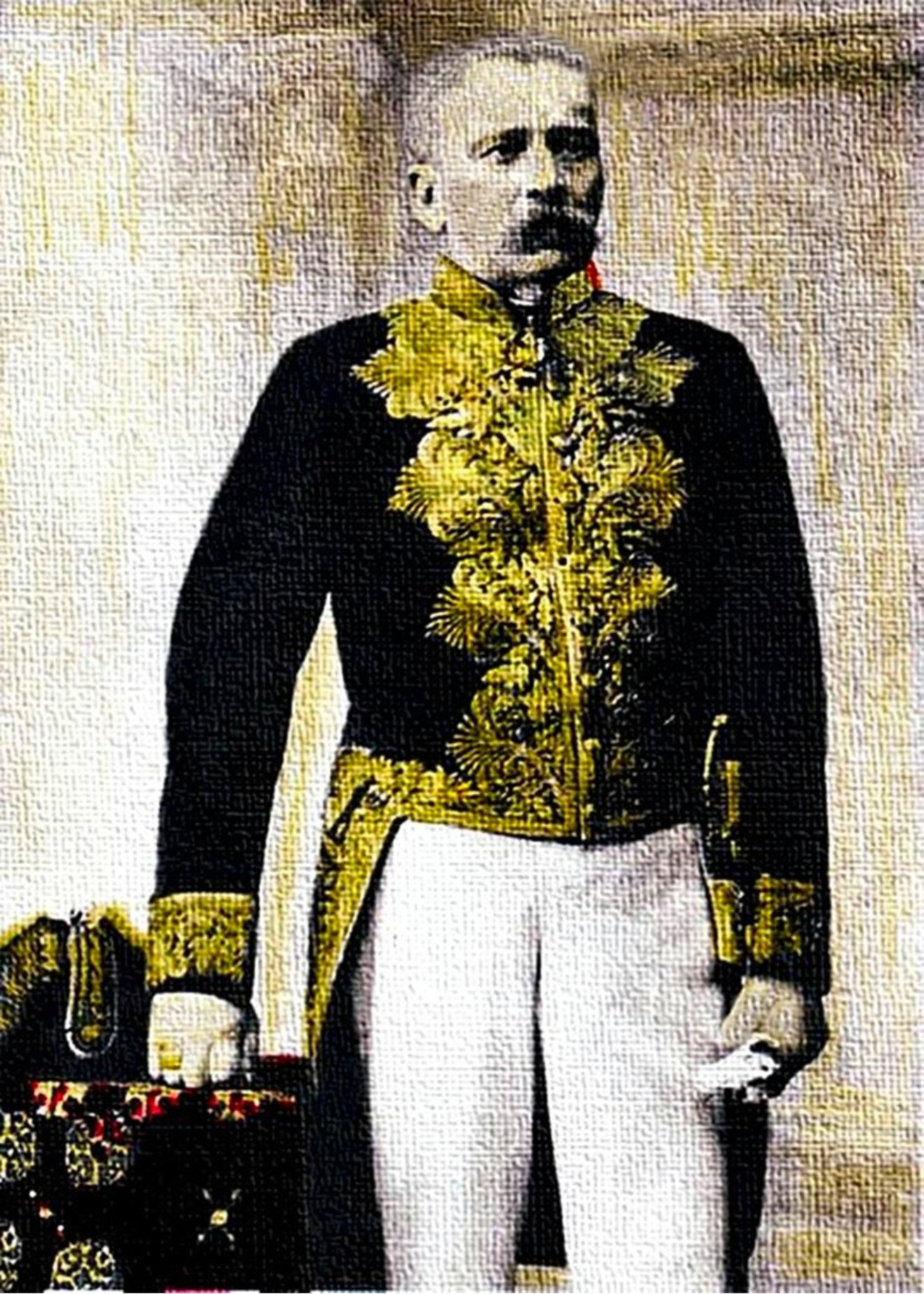 Baron Alexander Wassilko von Serecki (1827-1893), governor of Bukovina from 1870-1871 and 1884-1892.